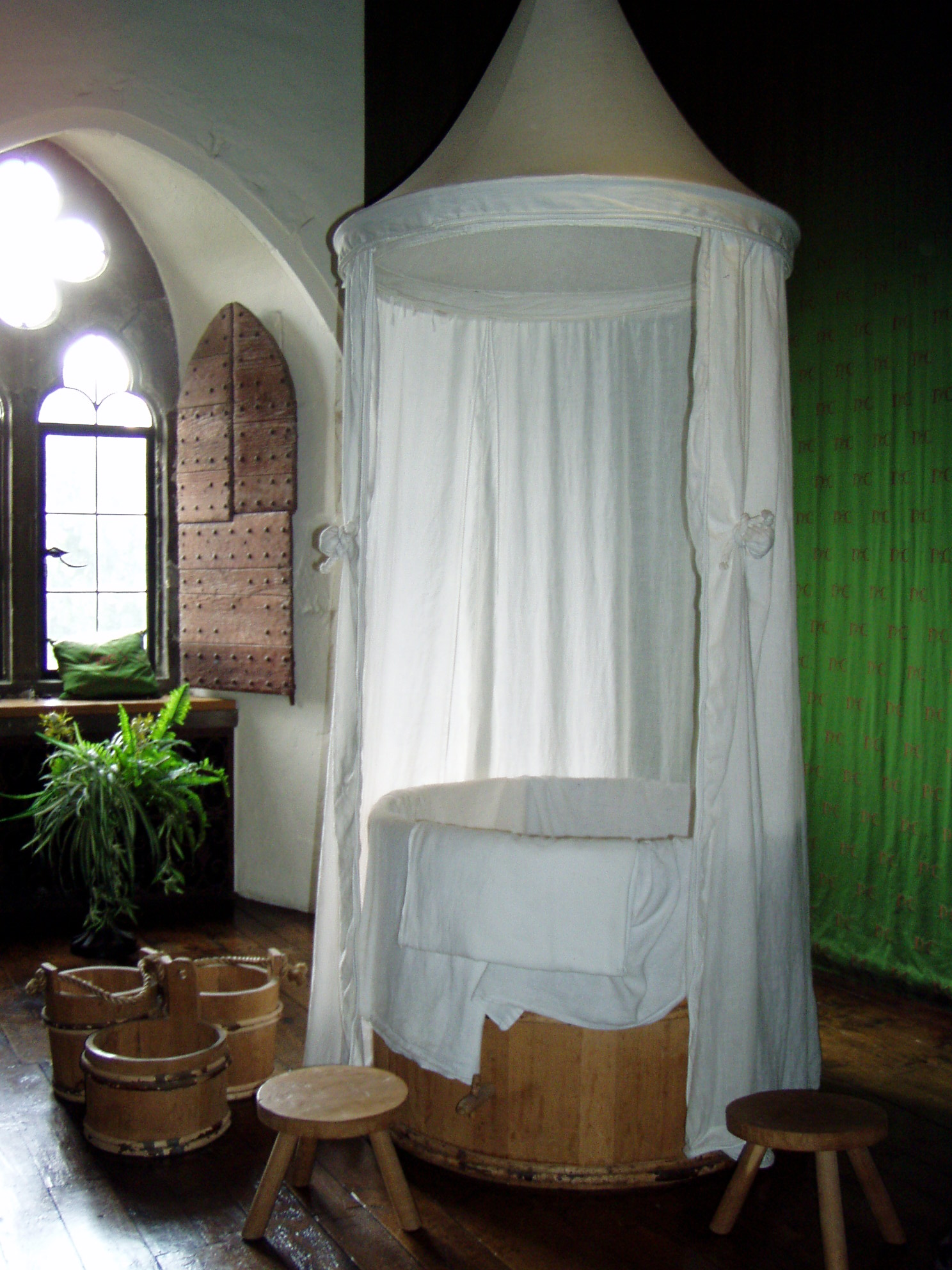 Historic bathroom in Leeds Castle, Kent, England